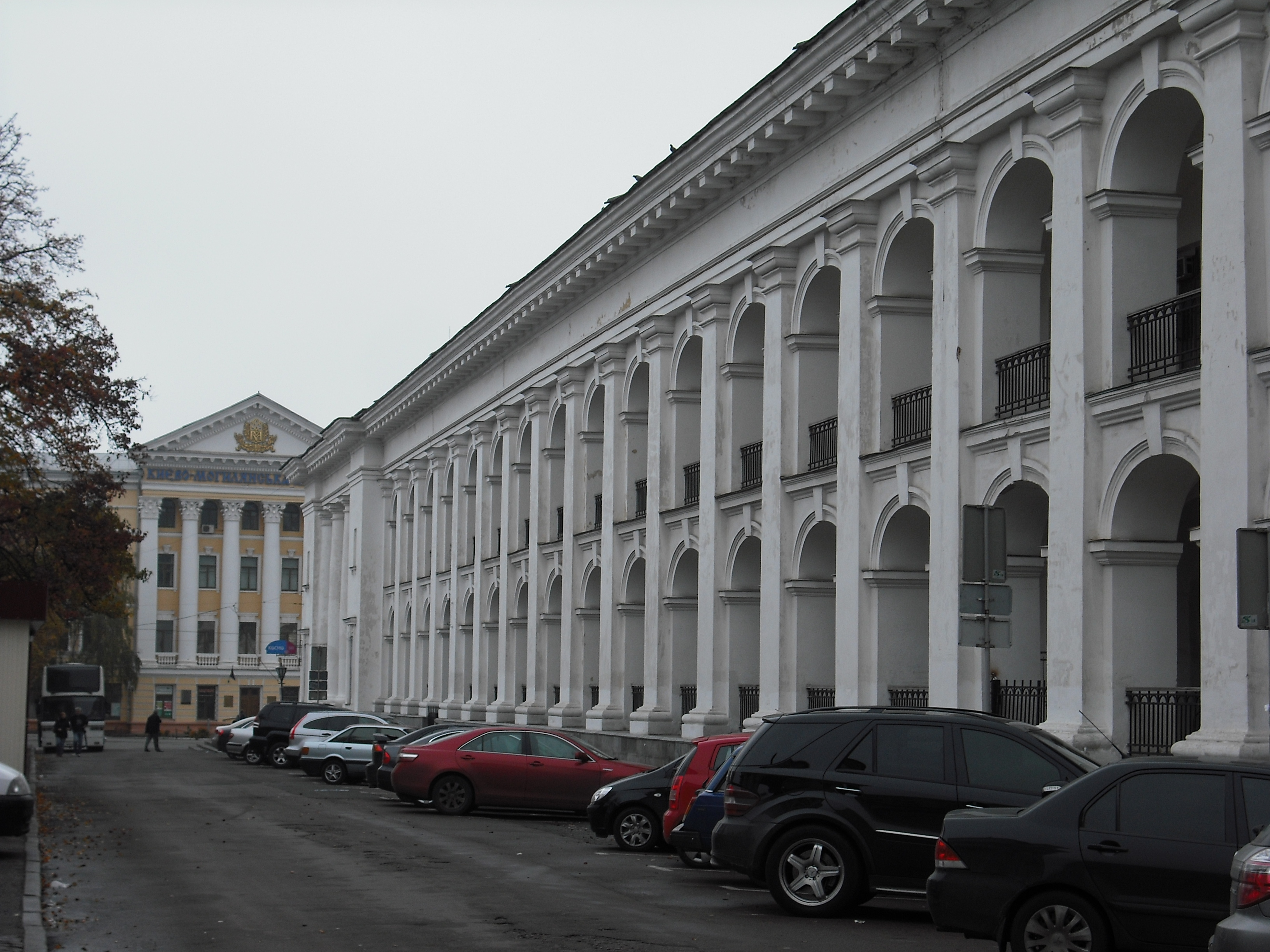 Kiev - Kontraktova Square - Mohyla Academy - Merchant Court